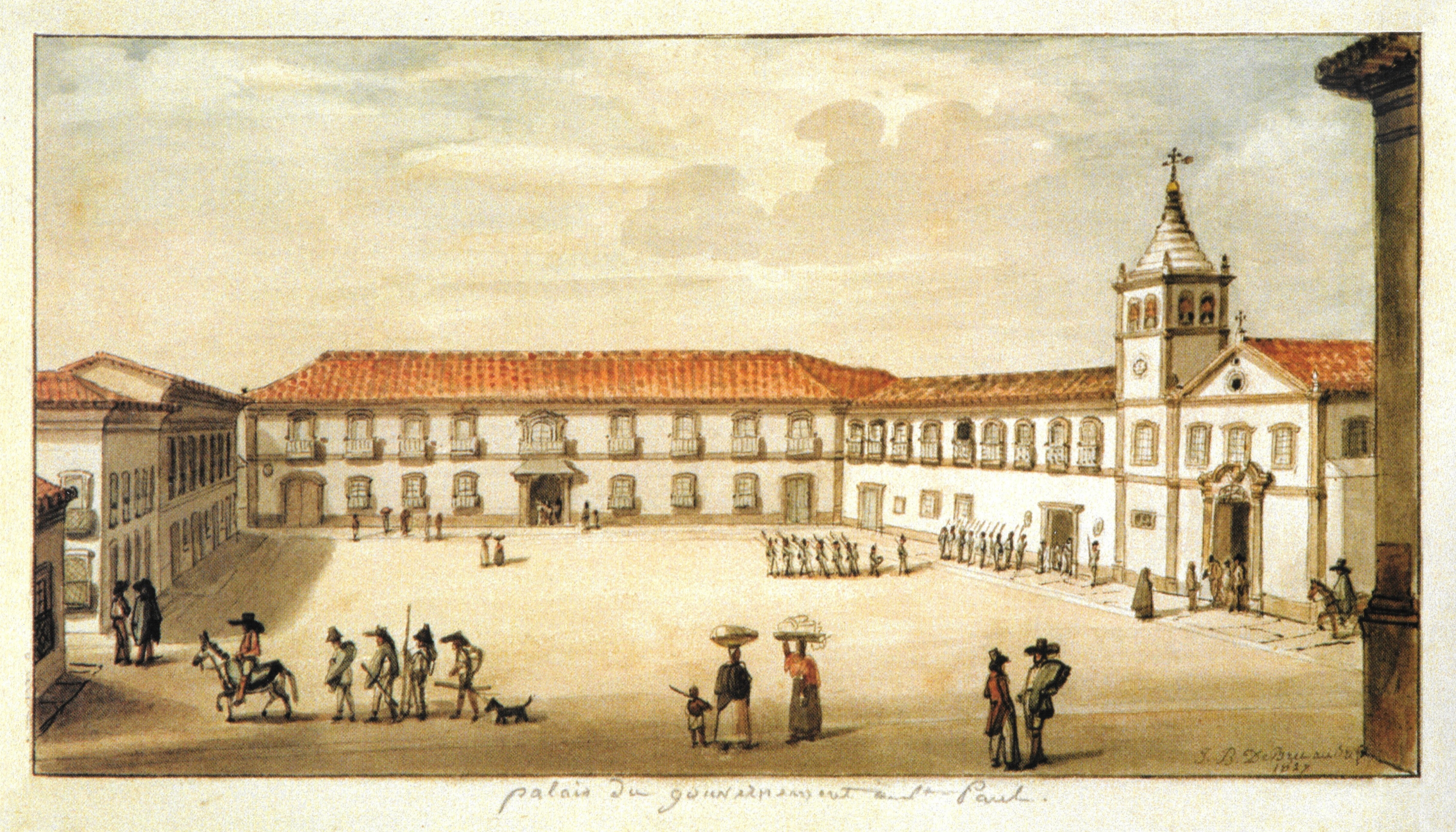 Government palace of São Paulo in 1827 (former Jesuits College), by Jean-Baptiste Debret (1768-1848).